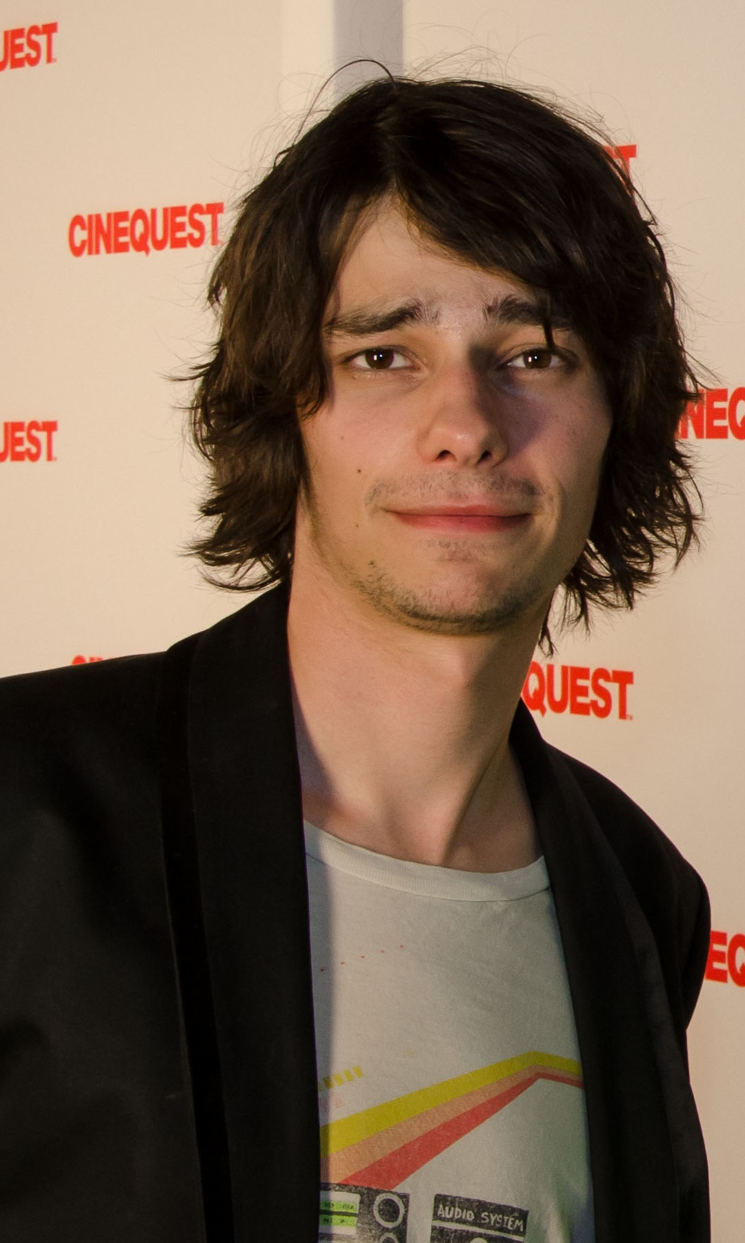 devon bostick in 2014